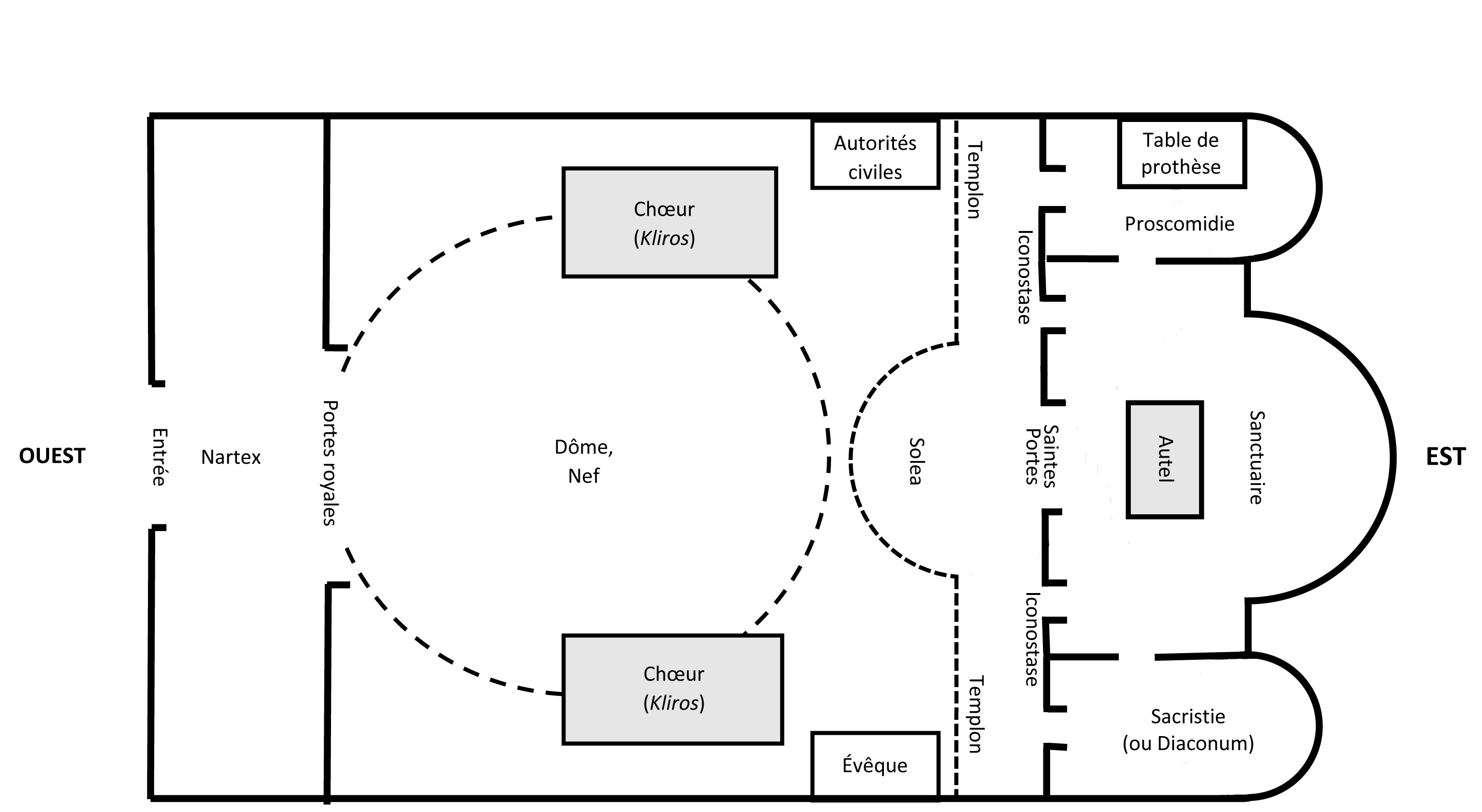 Plan-type of a Byzantine Rite Church